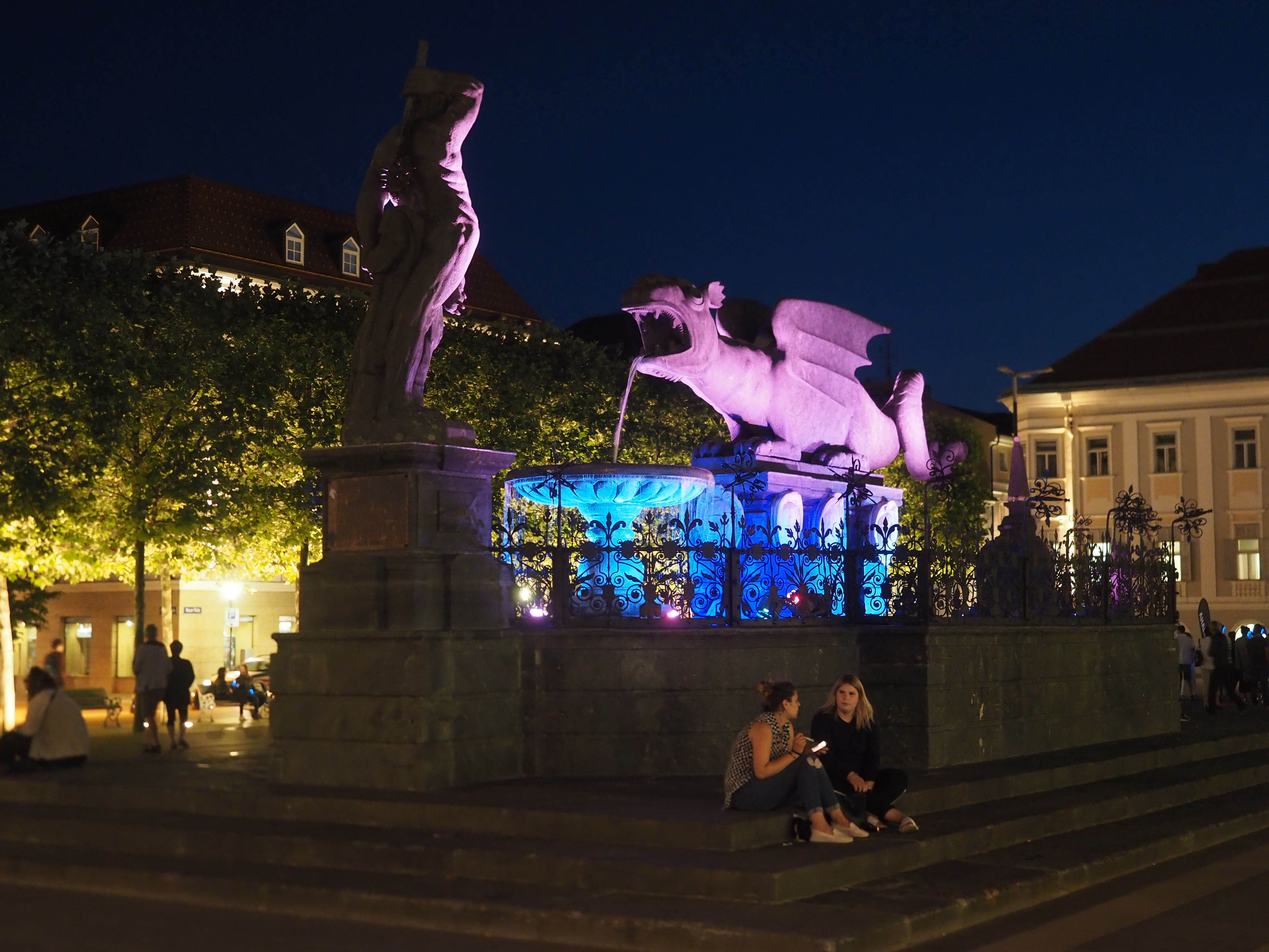 Lindwurmbrunnen, a fountain depicting a dragon in the centre of Klagenfurt, Carinthia, Austria, illuminated in late evening.